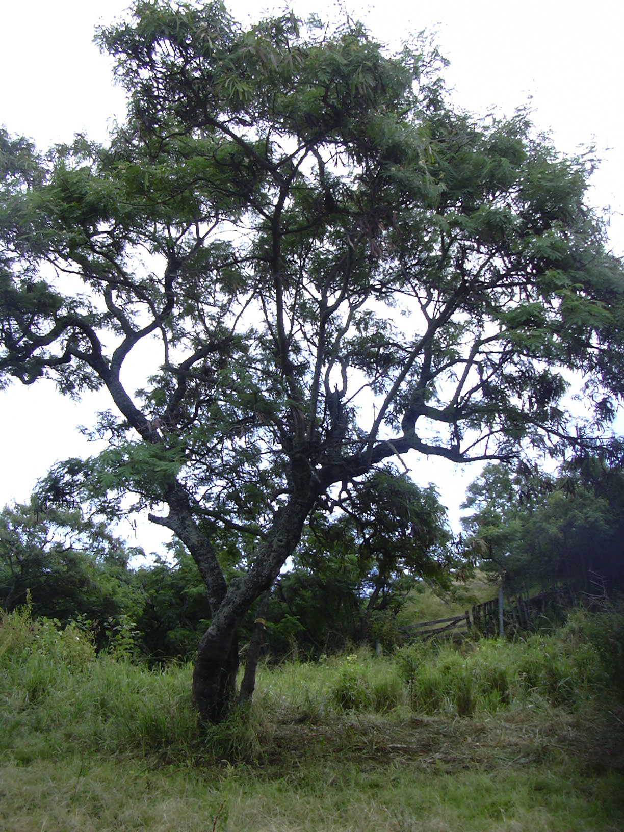 Leucaena leucocephala (large tree). Location: Maui, Kaupo